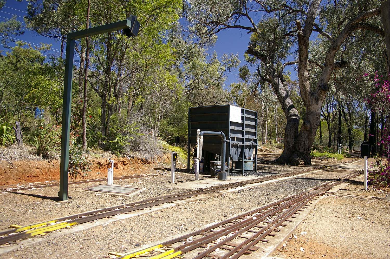 Coal refilling.